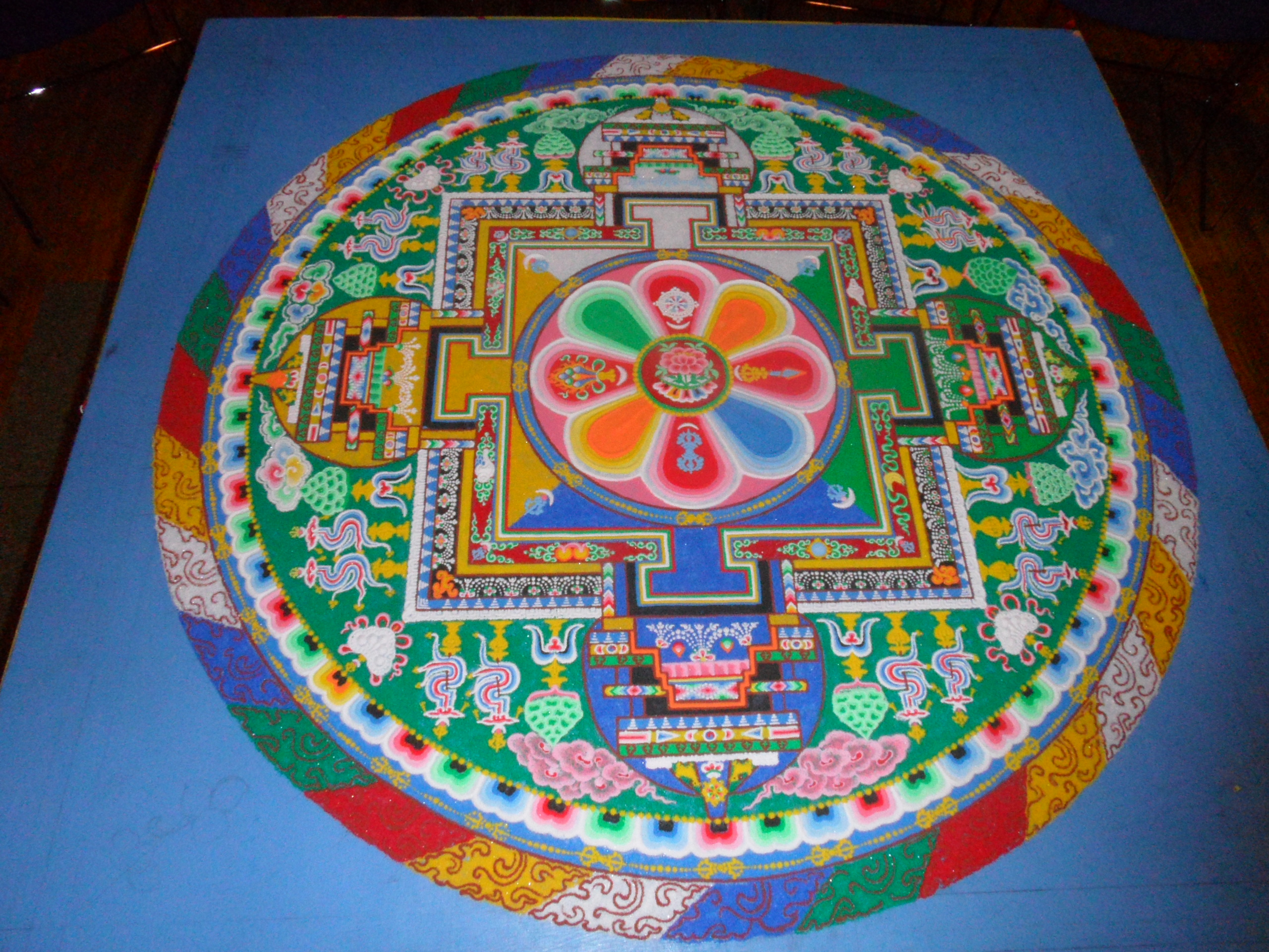 Mandala created at Prismare during a week's visit by Tibetan Monks